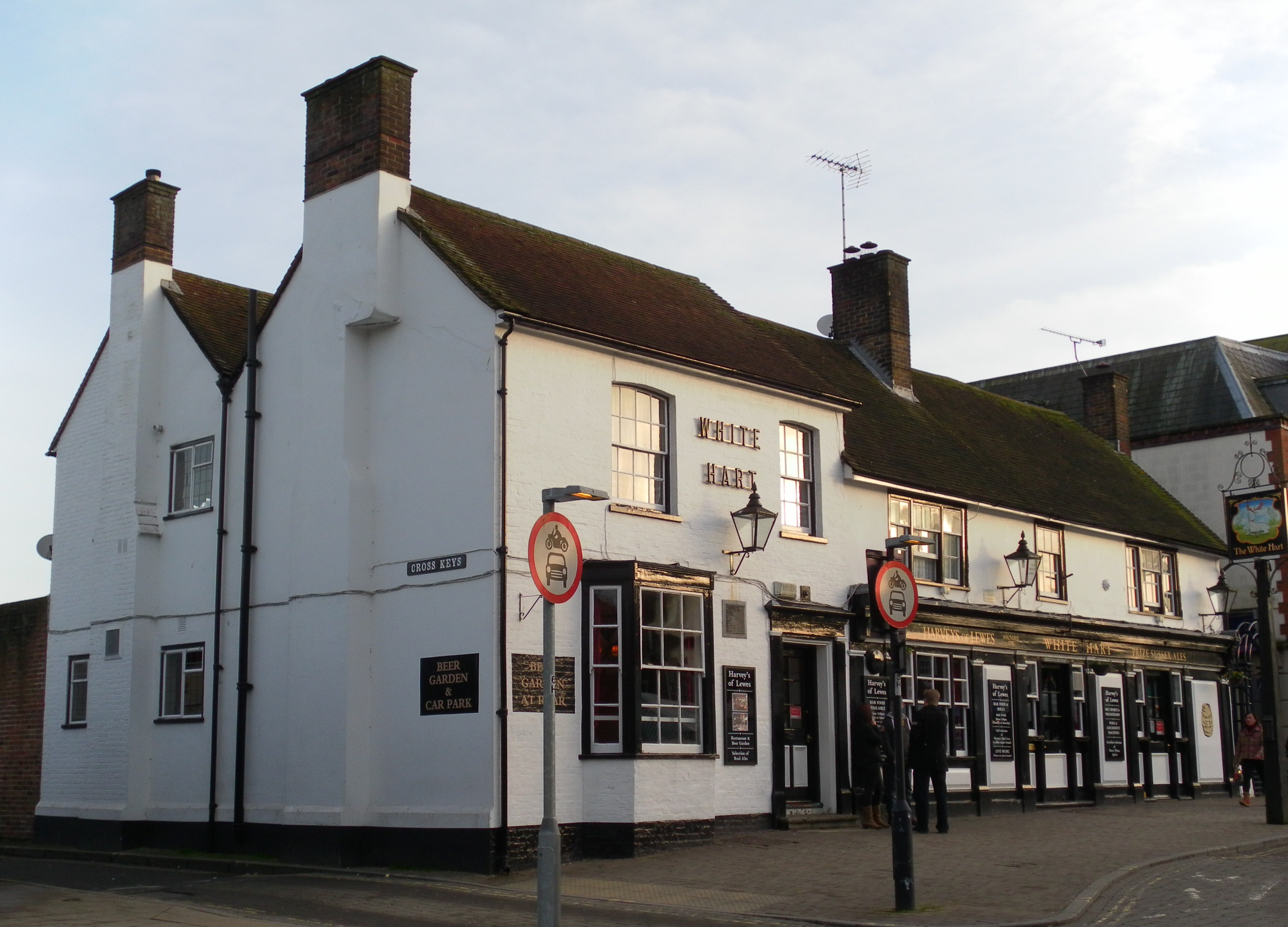 The White Hart Inn, High Street, Crawley, West Sussex, England. Listed at Grade II by English Heritage (IoE Code 363348)